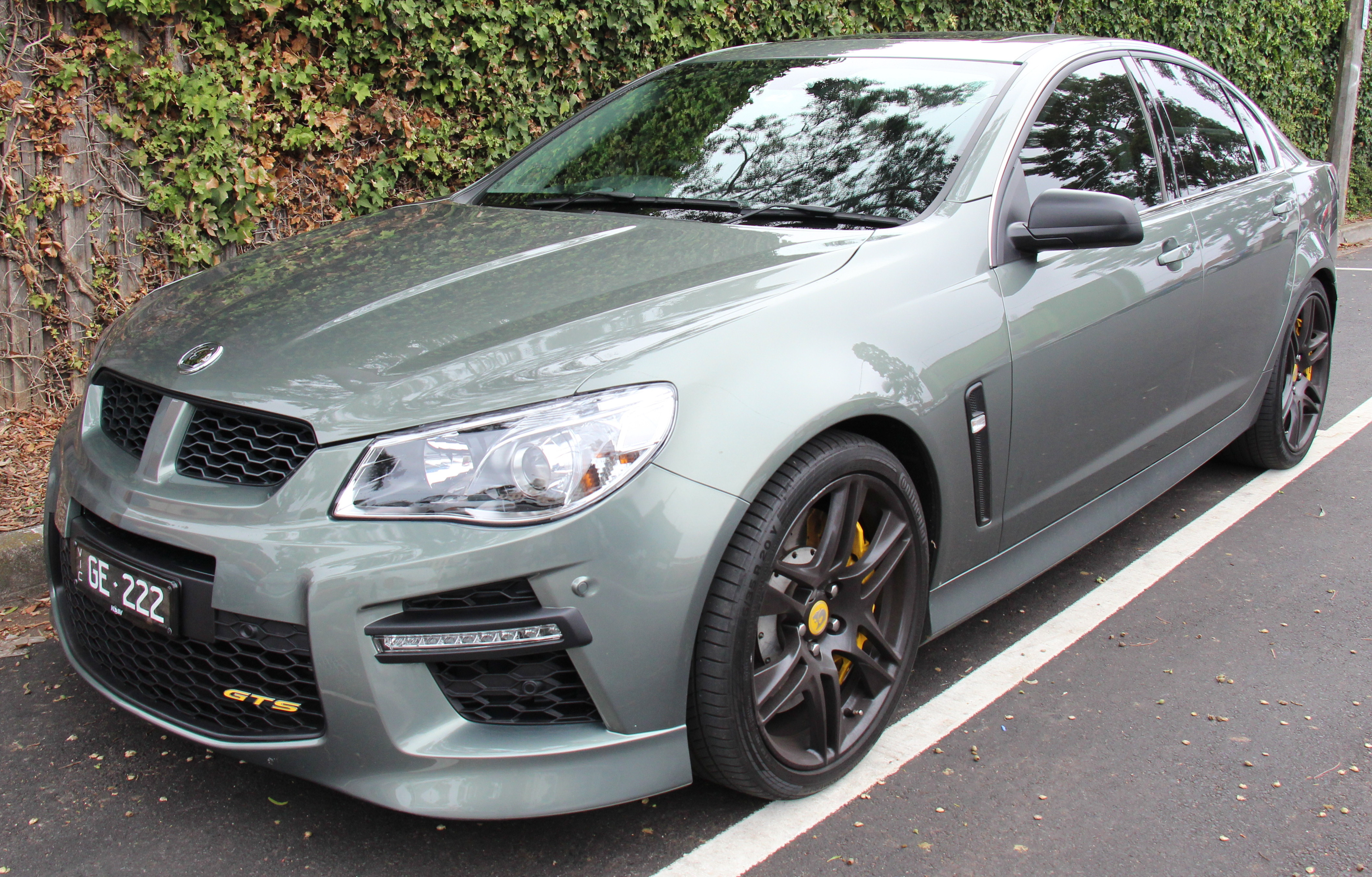 The VF, available from 2013, is an evolution of the VE, it features new styling at the front and rear, with a more modern, sculpted appearance. Changes include altered headlights and tail lamps, alterations to the intake and grille and the use of a lip-spoiler instead of a rear wing on the performance models. The bodyshell, windows, doors, mirrors and roof were all carried over from the VE. The wagon and utility variants use the same tail lamps as the VE models. The GTS is the upmarket performance sedan available from HSV, the performance partner of Holden. It gets the HSV body kit, 20 inch alloys, quad exhaust and fender vents. Also available from HSV is the base Clubsport and the Maloo ute. Engine; 6.2 L LS3 V8